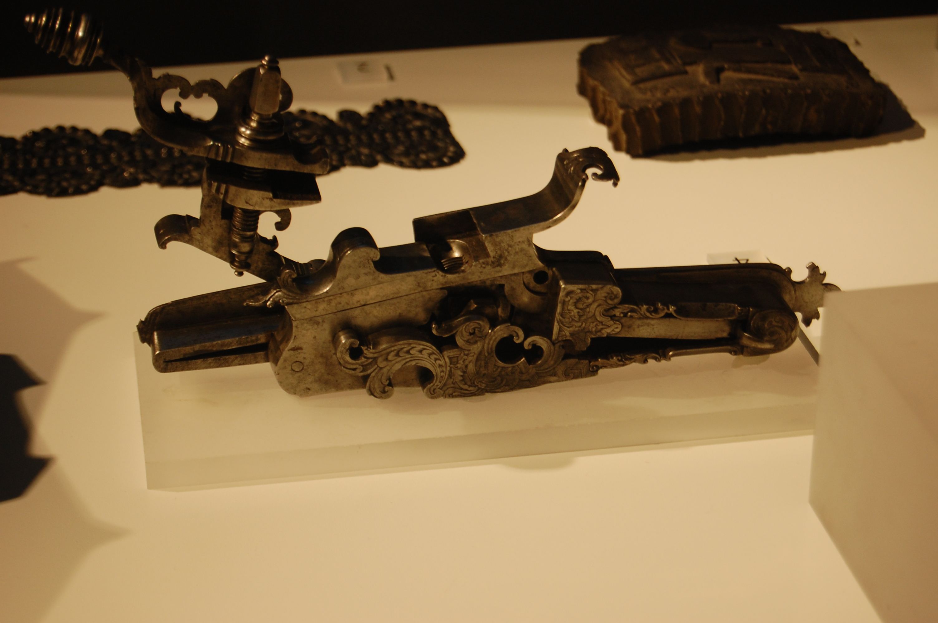 Wheellock mechanism on display at the Victoria and Albert Museum